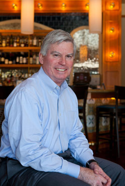 A picture of Ralph Brennan